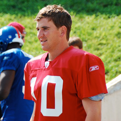 Eli Manning during a 2007 training camp